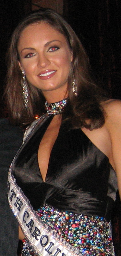 Andrea Duke, Miss North Carolina USA 2008, attends a sponsor party at the Sedona lounge in Las Vegas, Nevada prior to the Miss USA 2008 pageant.